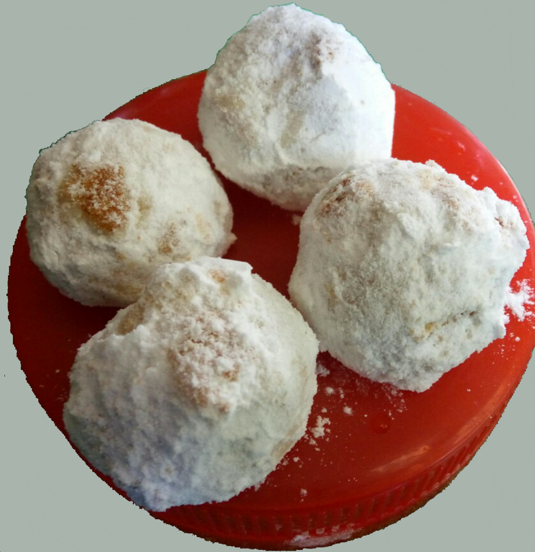 Makmur, a Malay traditional kuih served during the Eid al-Fitr.